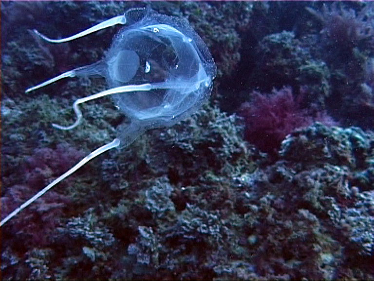 Carybdea marsupialis in Civitavecchia (Italy)